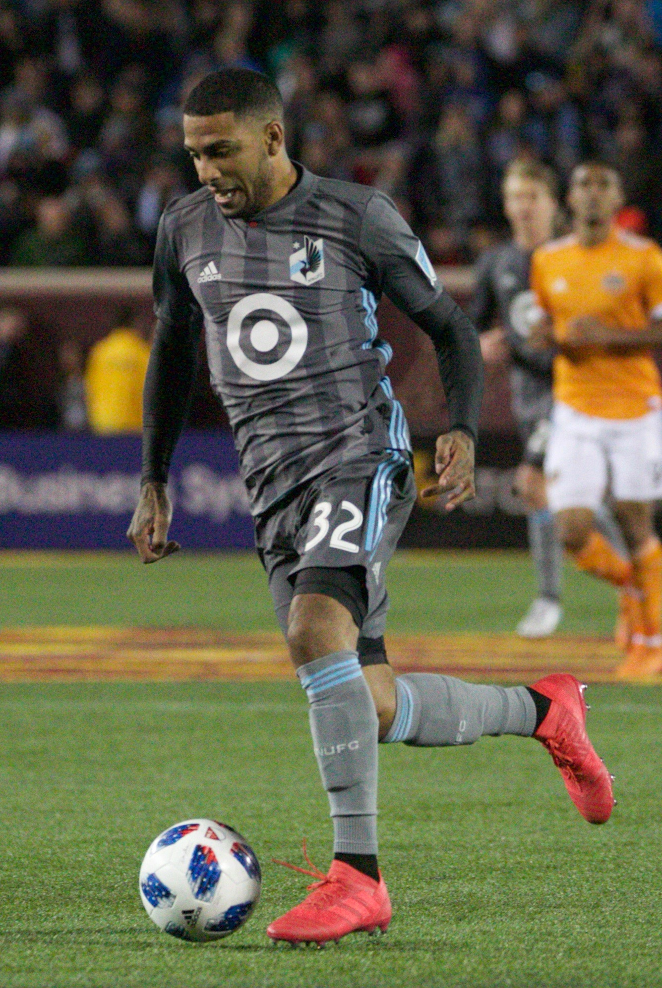 Alexi Gomez Debut Minnesota United - Houston Dynamo - TCF Bank Stadium - Minneapolis - MLS